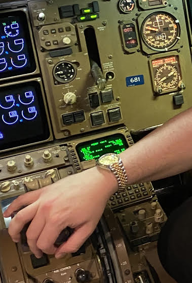 Pilot rests hands on throttle quadrant of 7ER